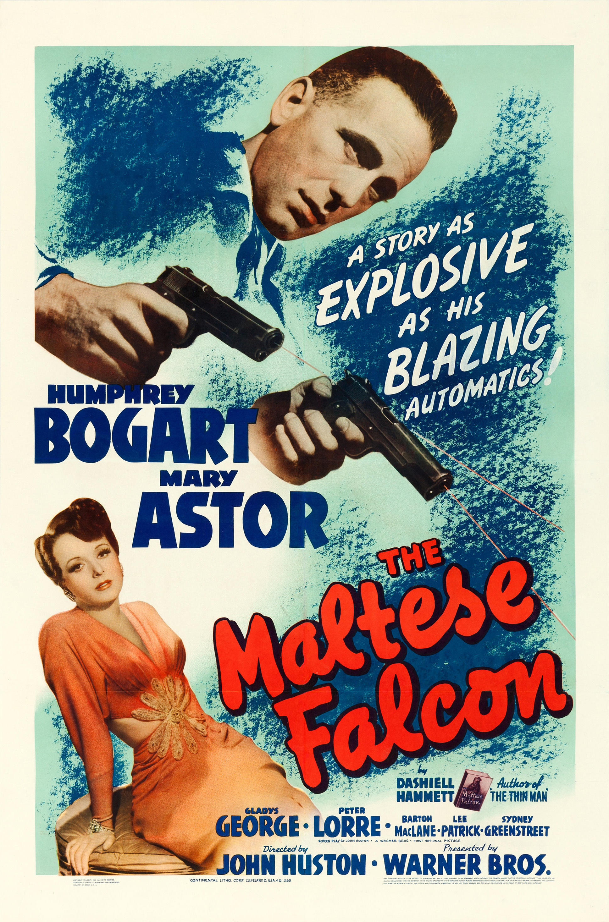 Poster for the theatrical run of the 1941 American film The Maltese Falcon, the third adaptation of Dashiell Hammett's 1930 novel The Maltese Falcon and the second by that name.